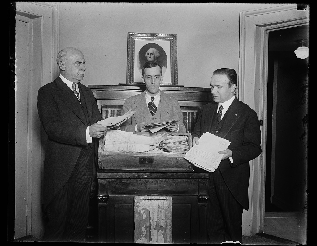 left to right William Tyler Page, Clerk of the House of Representatives and Executive Secretary of the United States Commission for the Celebration of the 200th anniversary of George Washington's birth; William Selden Washington, descendant of George Washington's brother; and Henry Woodhouse